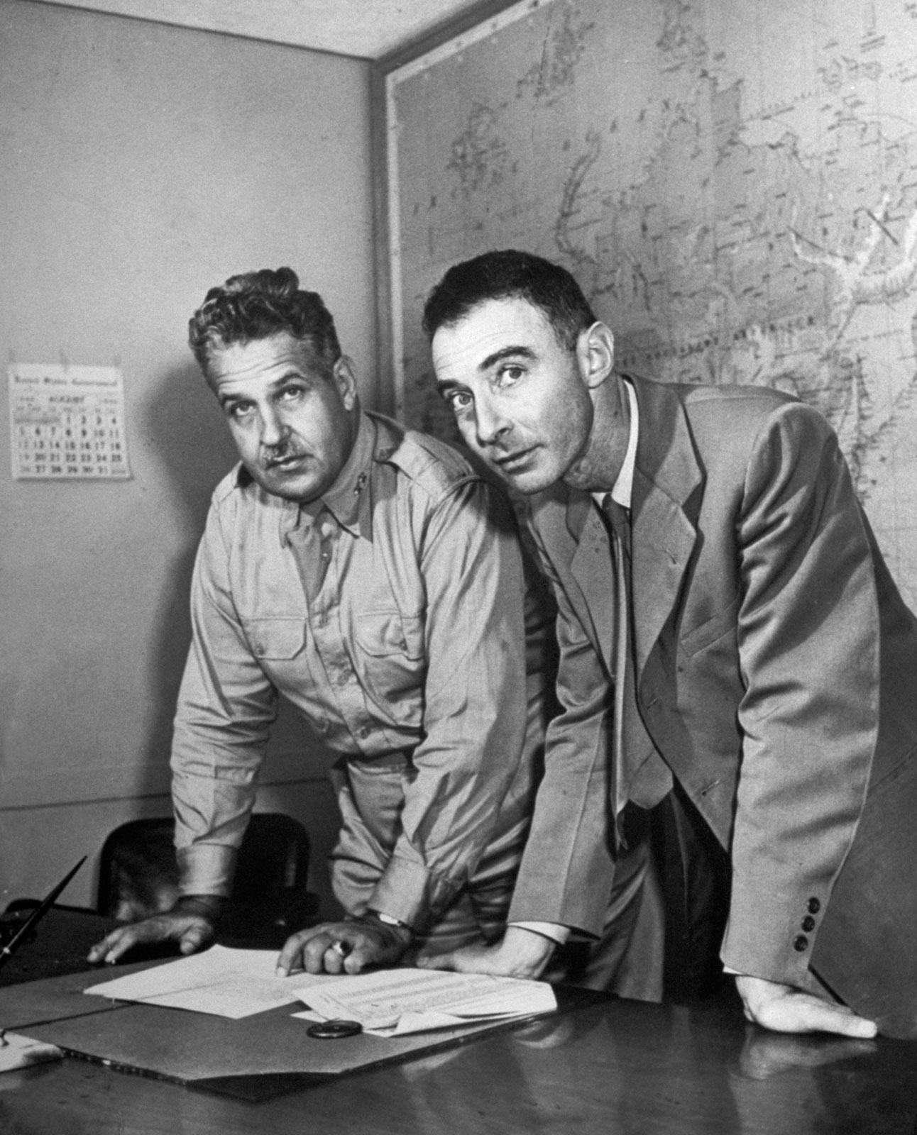 Leslie Groves (left), military head of the Manhattan Project, with Professor Robert Oppenheimer (right)